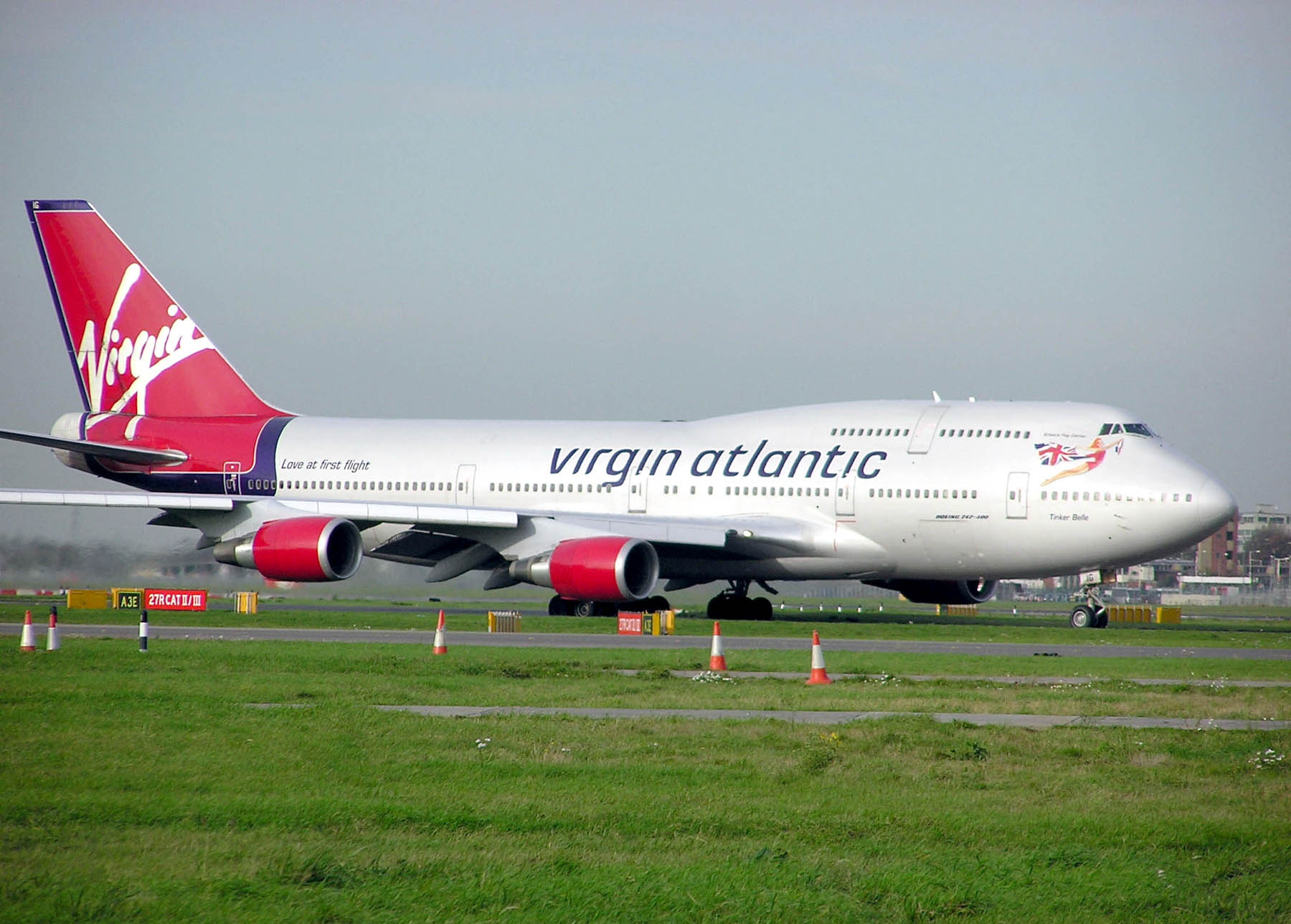 Virgin Atlantic Airways Boeing 747-400 (G-VBIG) taxiing to the take off point at London Heathrow Airport, England. Photographed by Adrian Pingstone in November 2005 and released to the public domain.